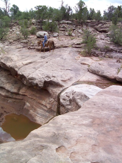 Horse and rider skirting a pothole in a stream bed.